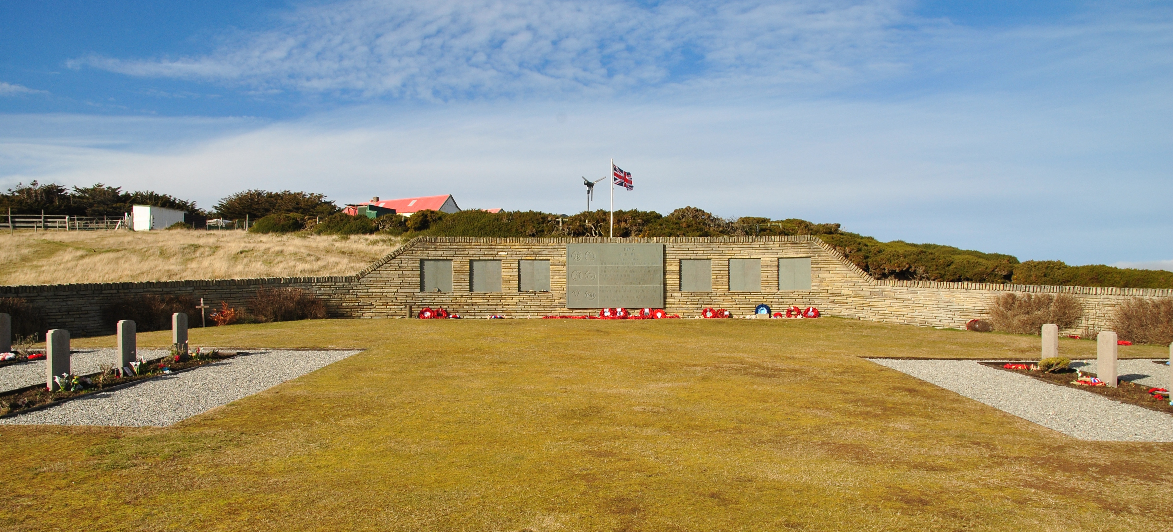 The Falklands War Memorial in San Carlos